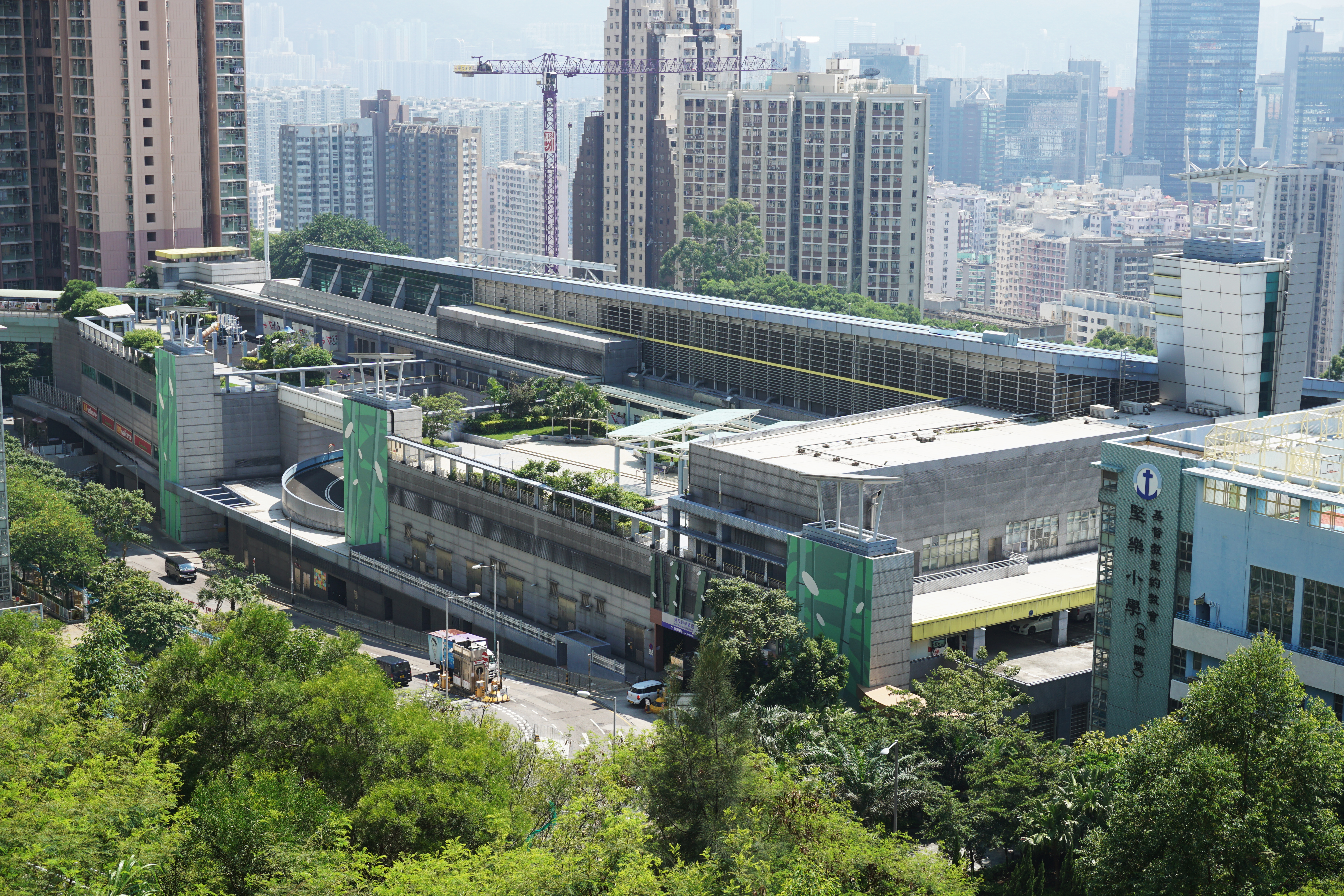 Sau Mau Ping Shopping Centre in Kwun Tong District, Hong Kong.